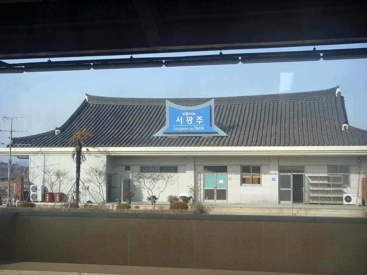 Seogwangju Station (Gyeongjeon Line), Maewol-dong, Seo-gu, Gwangju Metropolitan City, S. Korea